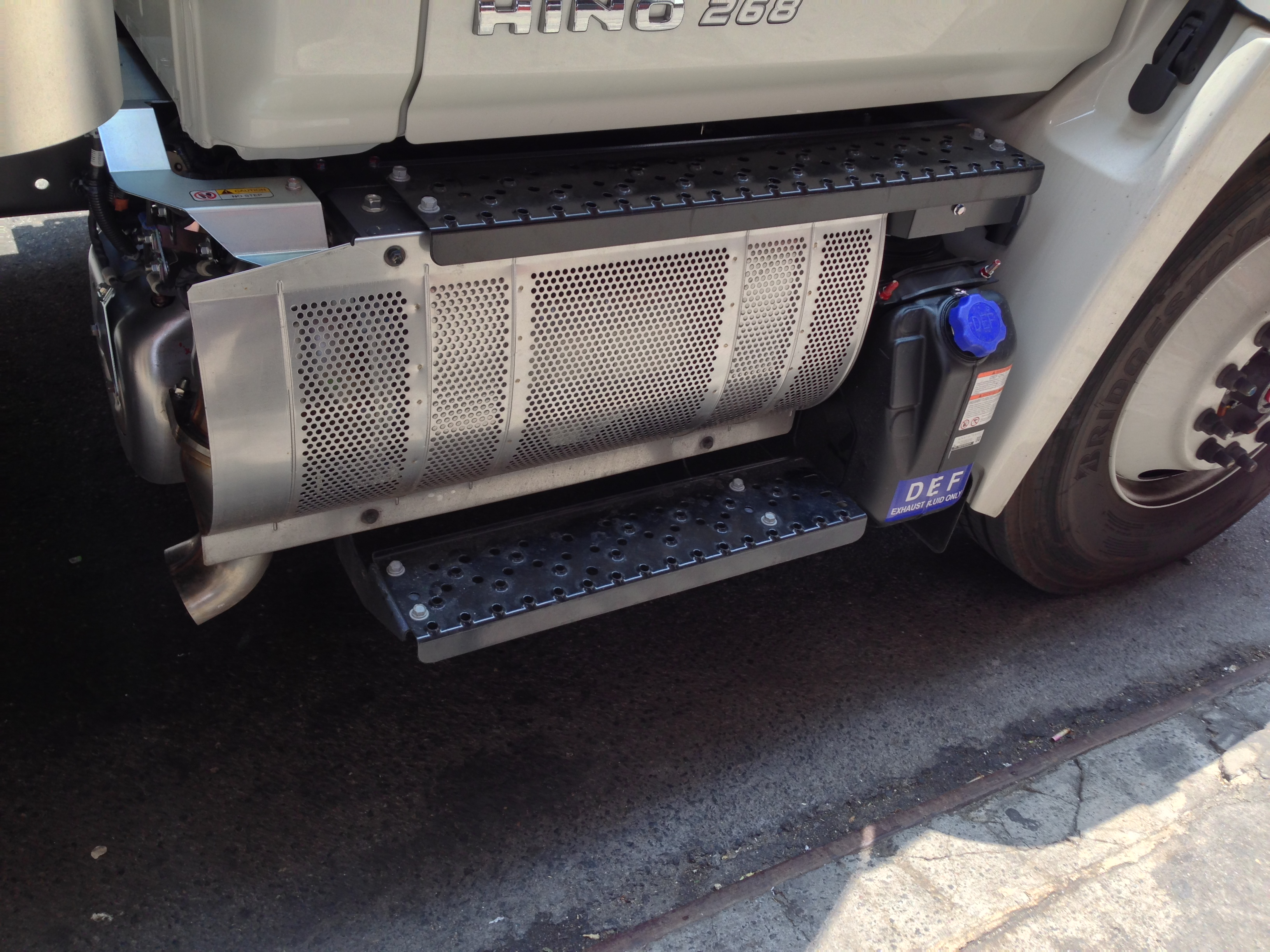 Hino Standardized SCR Unit which combines Diesel Particulate Reduction System (DPR) and Selective Catalytic Reduction (SCR) to reduce pollution from the exhaust. DPR is a diesel particulate filter with additional temperature control to efficiently burn off the soot captured in the filter. The temperature is controlled by triggering small fuel injection bursts to add heat and with the oxygen, the soot in the filter is burned off. The SRC uses the Diesel Exhaust Fluid to react with NOx to convert into nitrogen, water and small amounts of carbon dioxide.